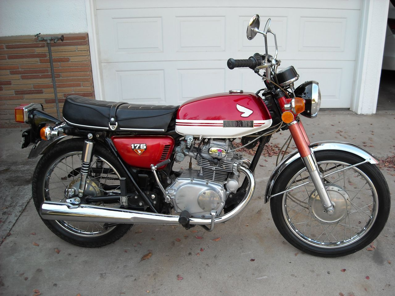 A 1972 model Honda CB175. Picture taken in November, 2010. Gas tank is not original and is from a 1970-71 model CB175, otherwise all parts are original to bike including tires.